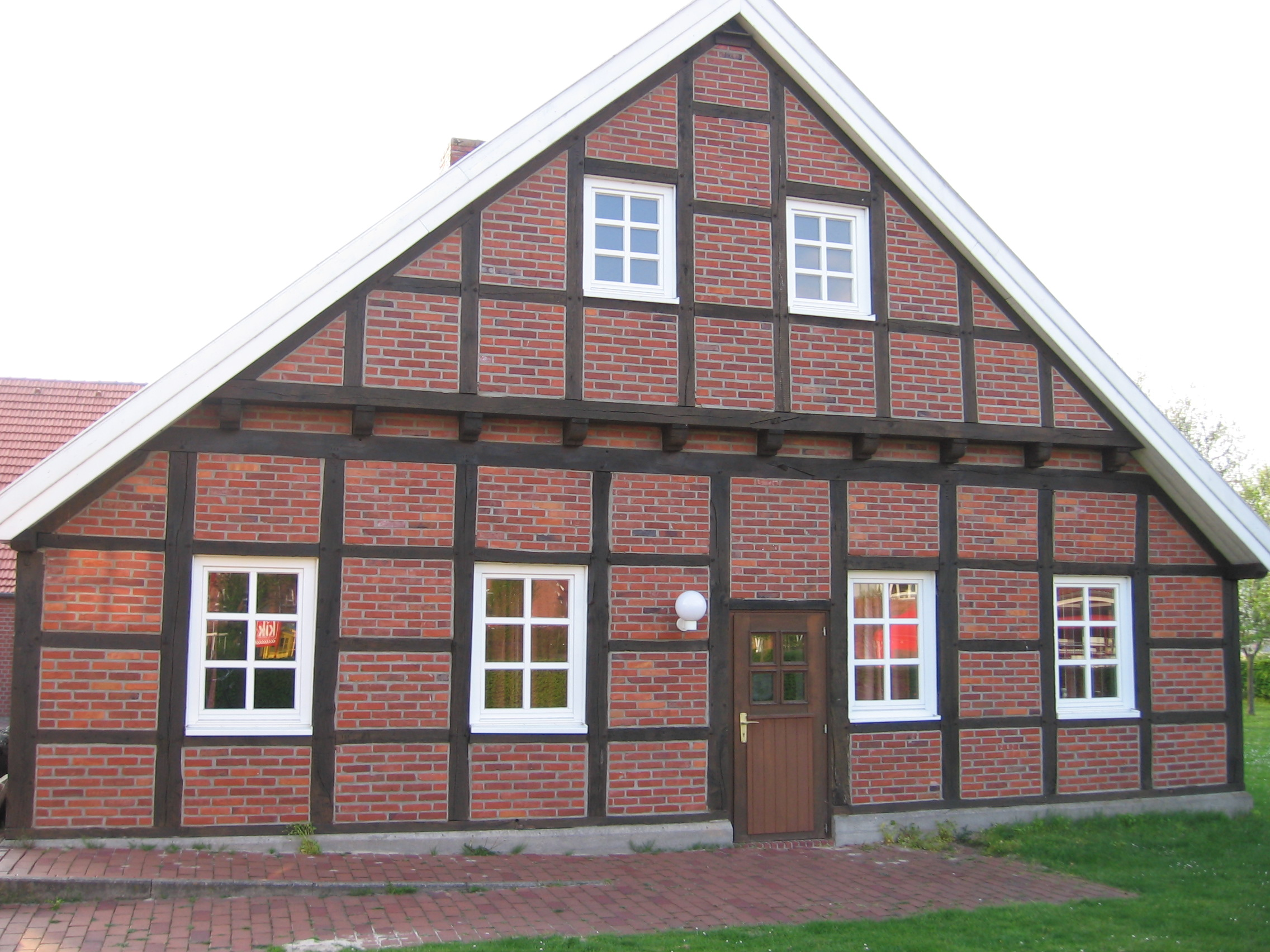 Heimathaus Twist - Cultural center in the German municipality Twist